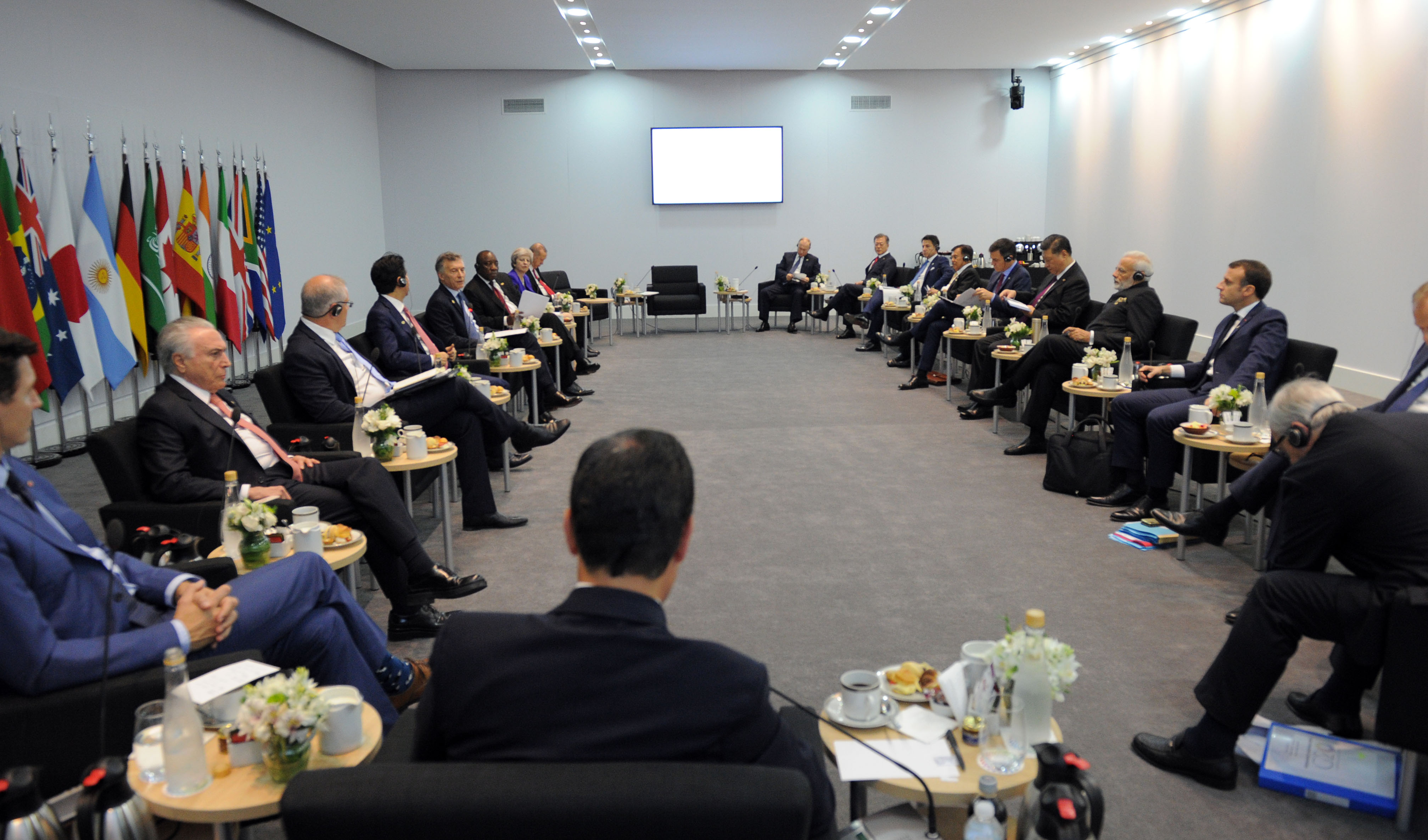 Photos of the leaders’ retreat